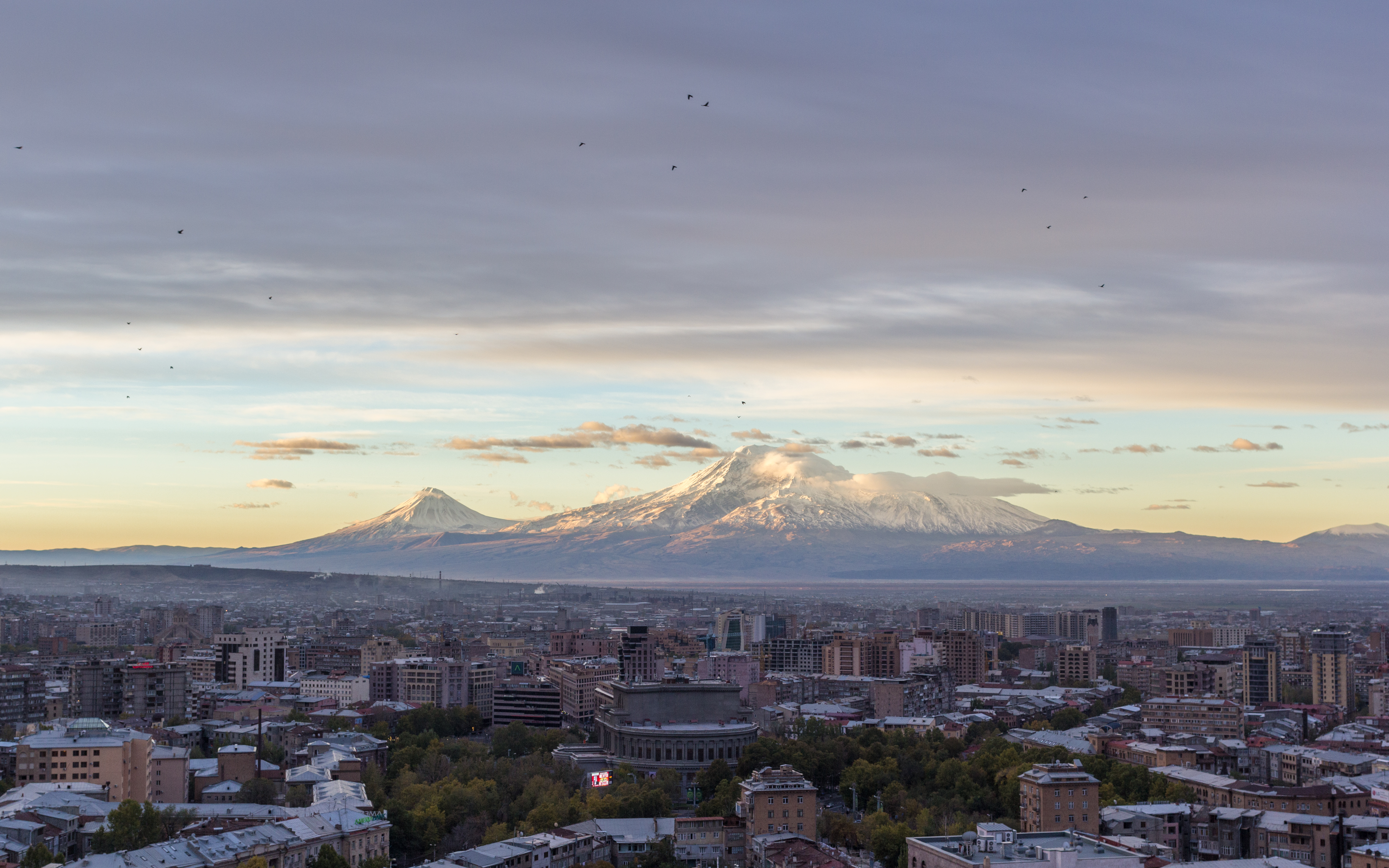 Yerevan, the capital city of Armenia at dawn.